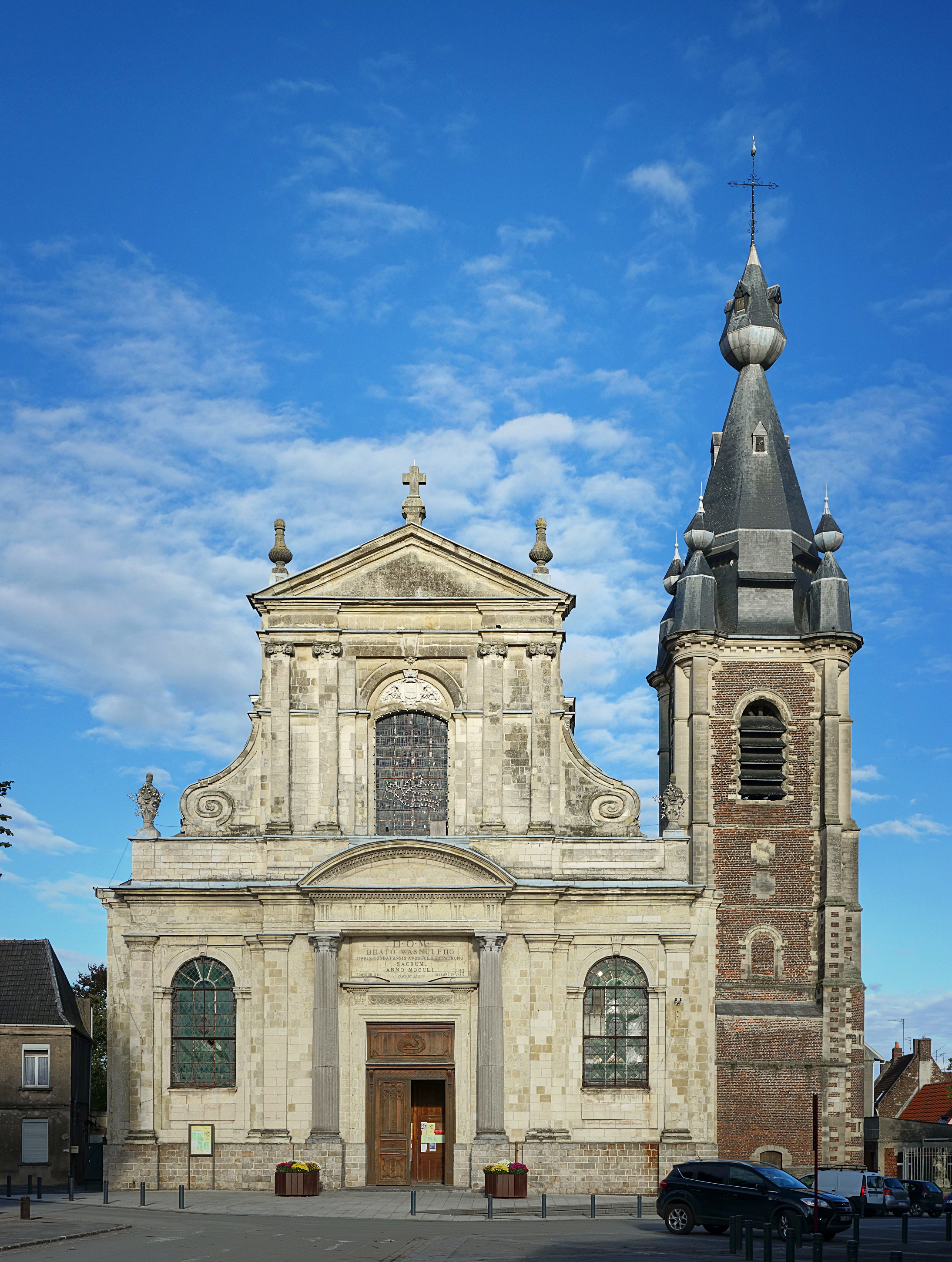 Saint-Wasnon Parish Church in Condé-sur-l'Escaut, France.